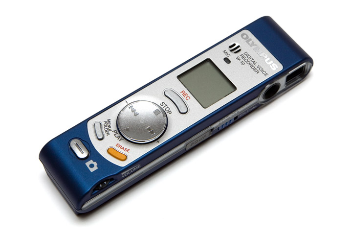 Dictaphone Olympus W-10